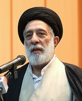 Hadi Khamenei in the Congress of Reformists.